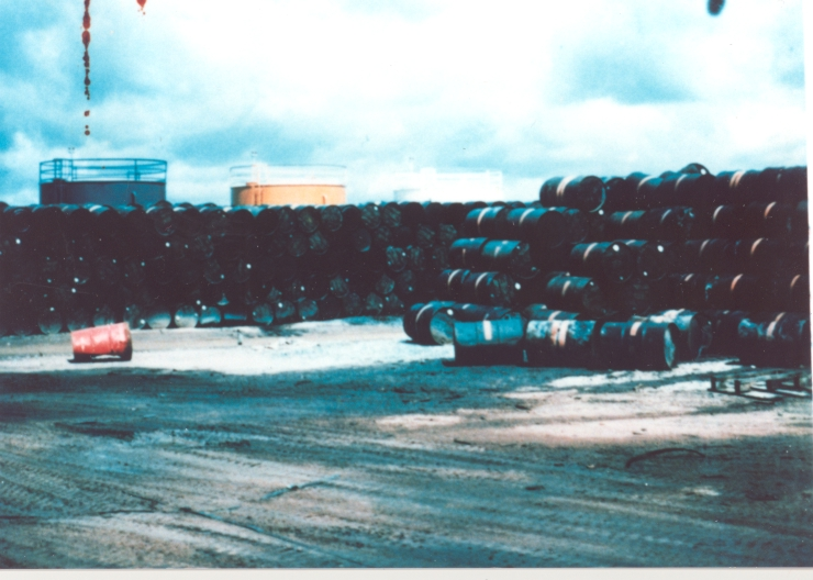 Large stacks of 55-gallon drums filled with Agent Orange.